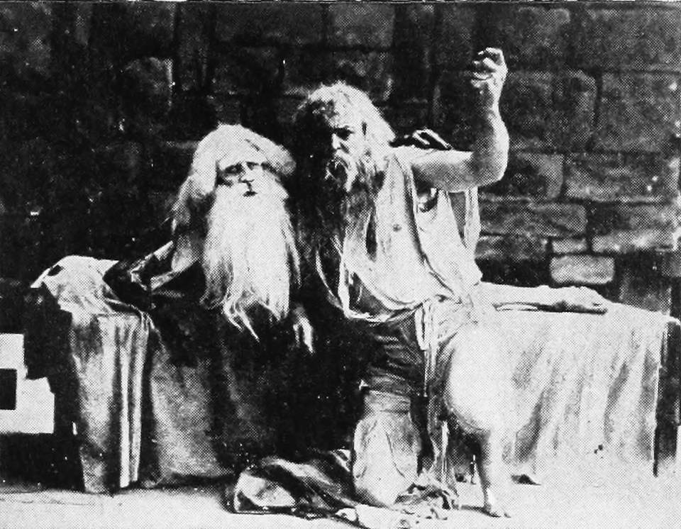 Film still from The Count of Monte Cristo, an American silent film. On the right, Hobard Bosworth as Edmnd Dantès.